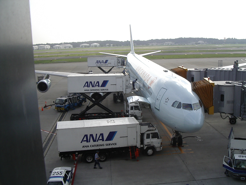 Air Canada Airbus A340 with ANA Catering Service at Narita Airport